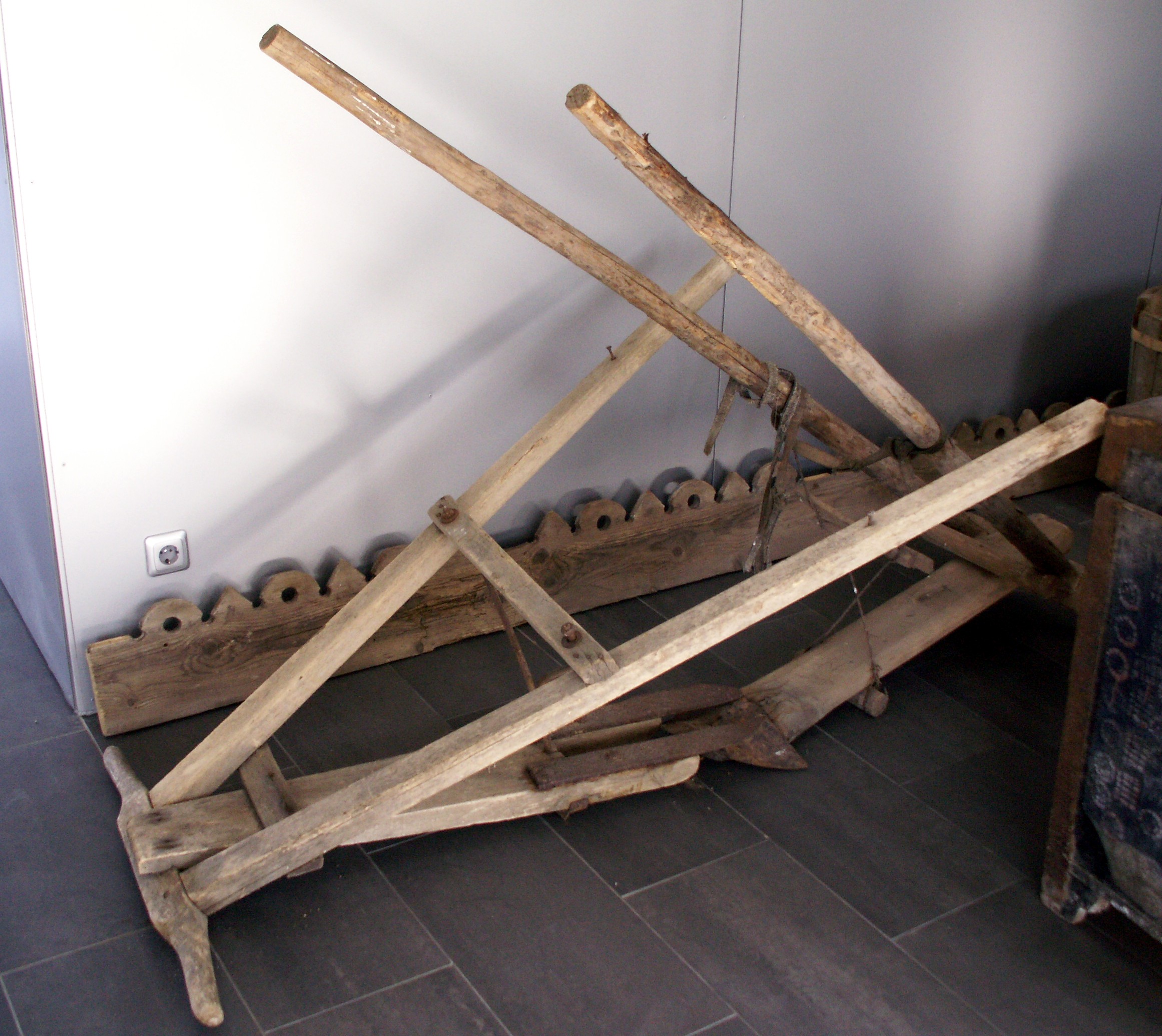 Museum of ethnocosmology, Kulionys, Molėtai district, Lithuania